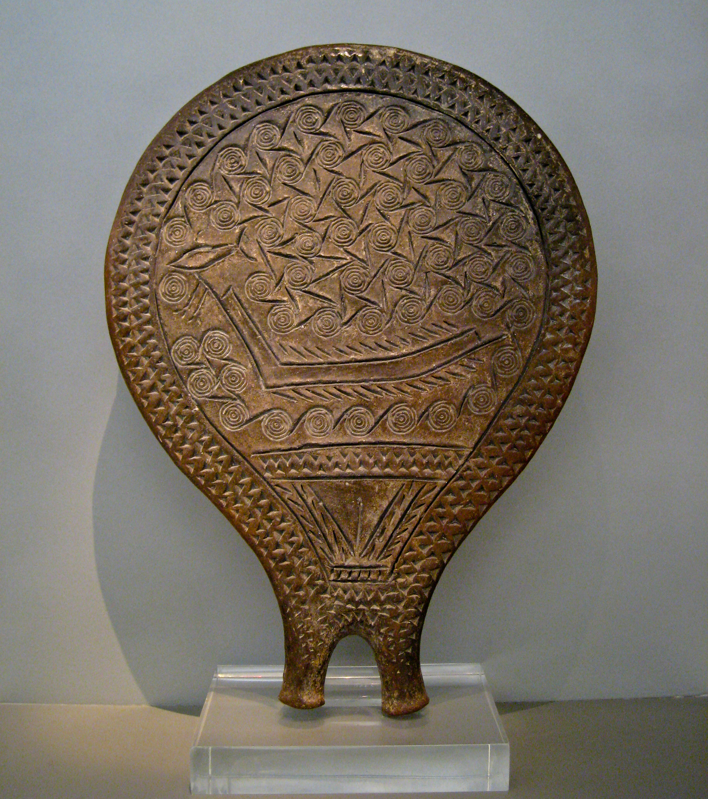 Clay frying-pan-shaped vessel with ship decoration, 2800-2300 BC, Syros